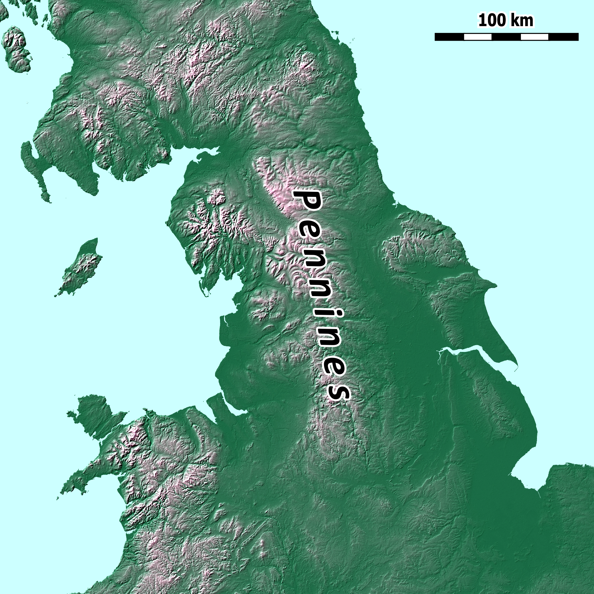 Location map of the Pennines